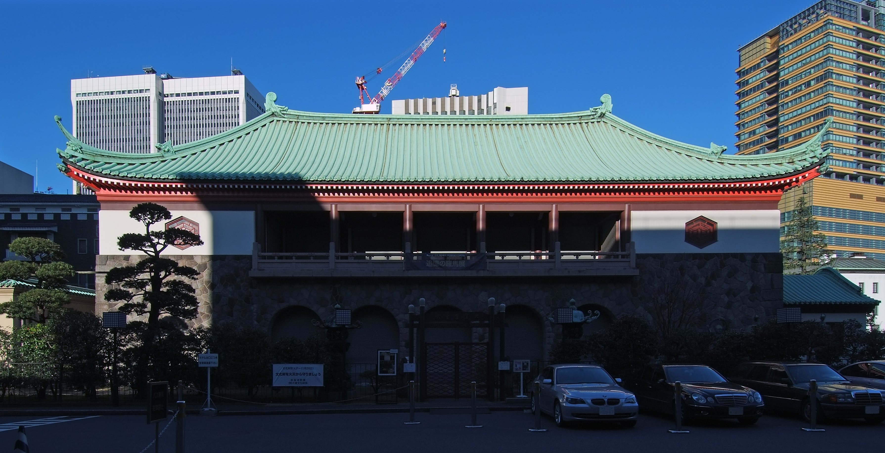 Okura Shukokan Museum of Fine Arts, at Minato-ku Tokyo Japan, design by Chuta Ito in 1928.